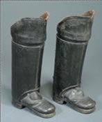 A pair of leather Postillion's Boots, 60cm high Provenance: Wormsley Park; Colonel Adrian Scrope who inherited Wormsley Park had a distinguished career in the Parliamentarian Army during the Civil War and was a signatory on the death warrant to Charles I. These boots are reputed to have belonged to Cromwell and stood in the Hall at Wormsley Park. Condition report: The boots are in good order overall, although they are of course worn and scuffed overall as is consistent with age and normal use The suggestion of 17th century provenance is merely that, and is reported as being by family repute. Sold by Dreweatts Auctioneers, Newbury, 26/11/2009, lot 63, £3,800, for John Fane.